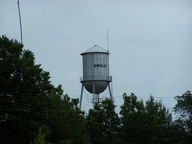 Gould, Arkansas water tower - Located right off US 65 near Garfield St., Lincoln County, Gould, Arkansas